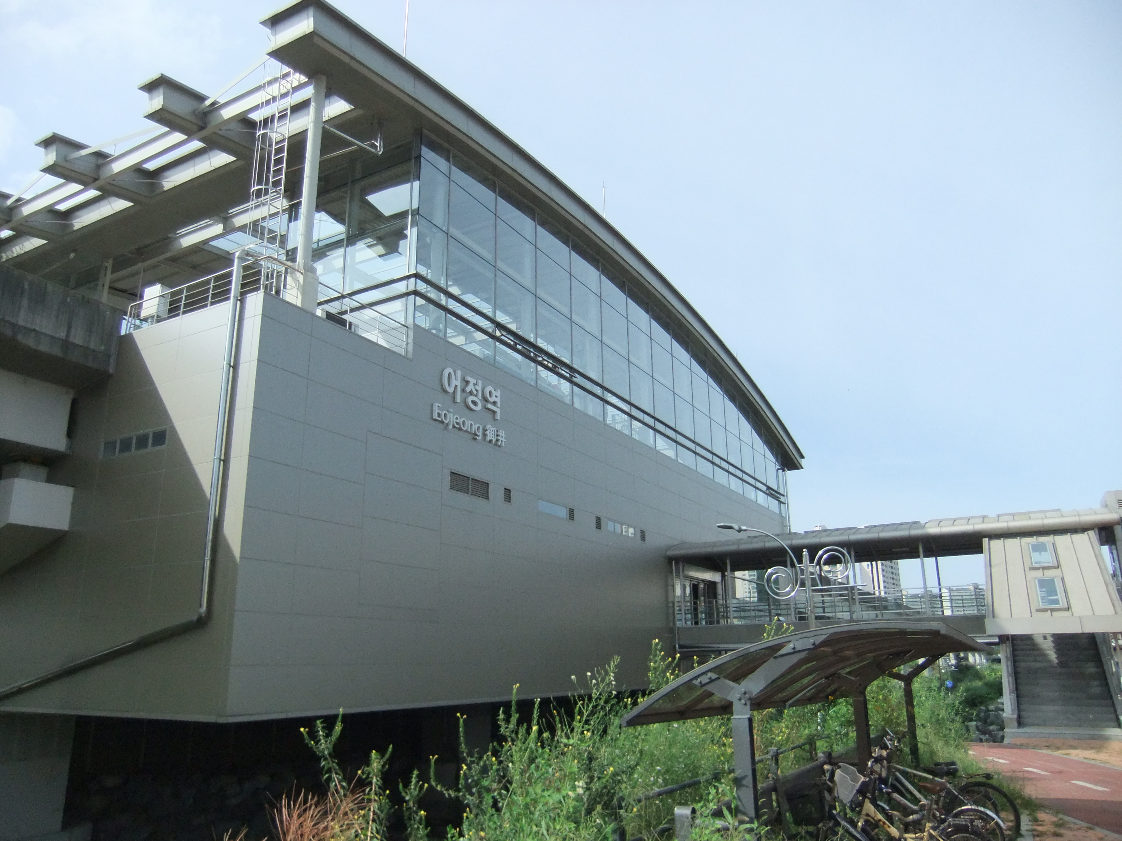 Eojeong station in Yongin LRT in korea